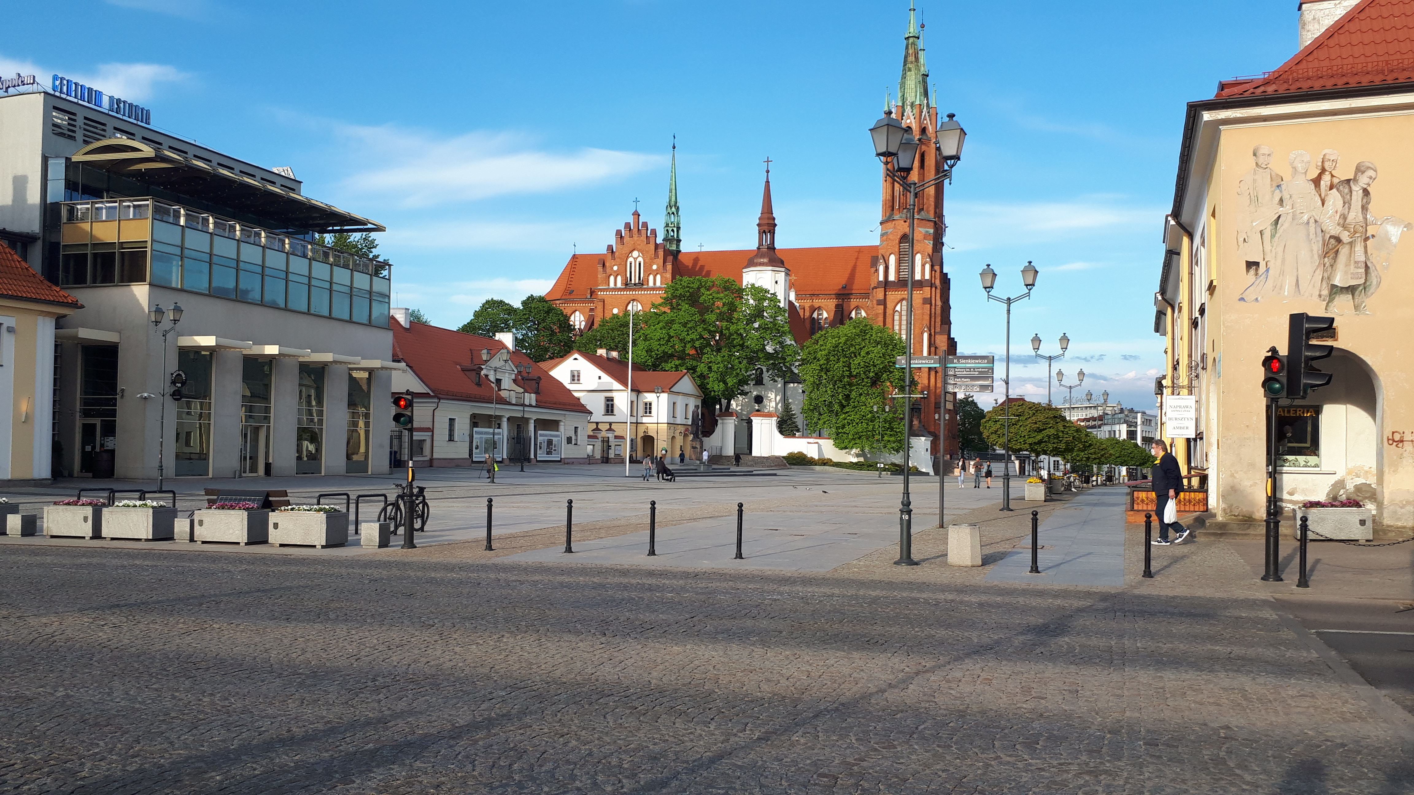 Rynek Kościuszki in Białystok